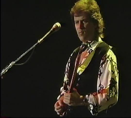 With Yes, 1994, Chile